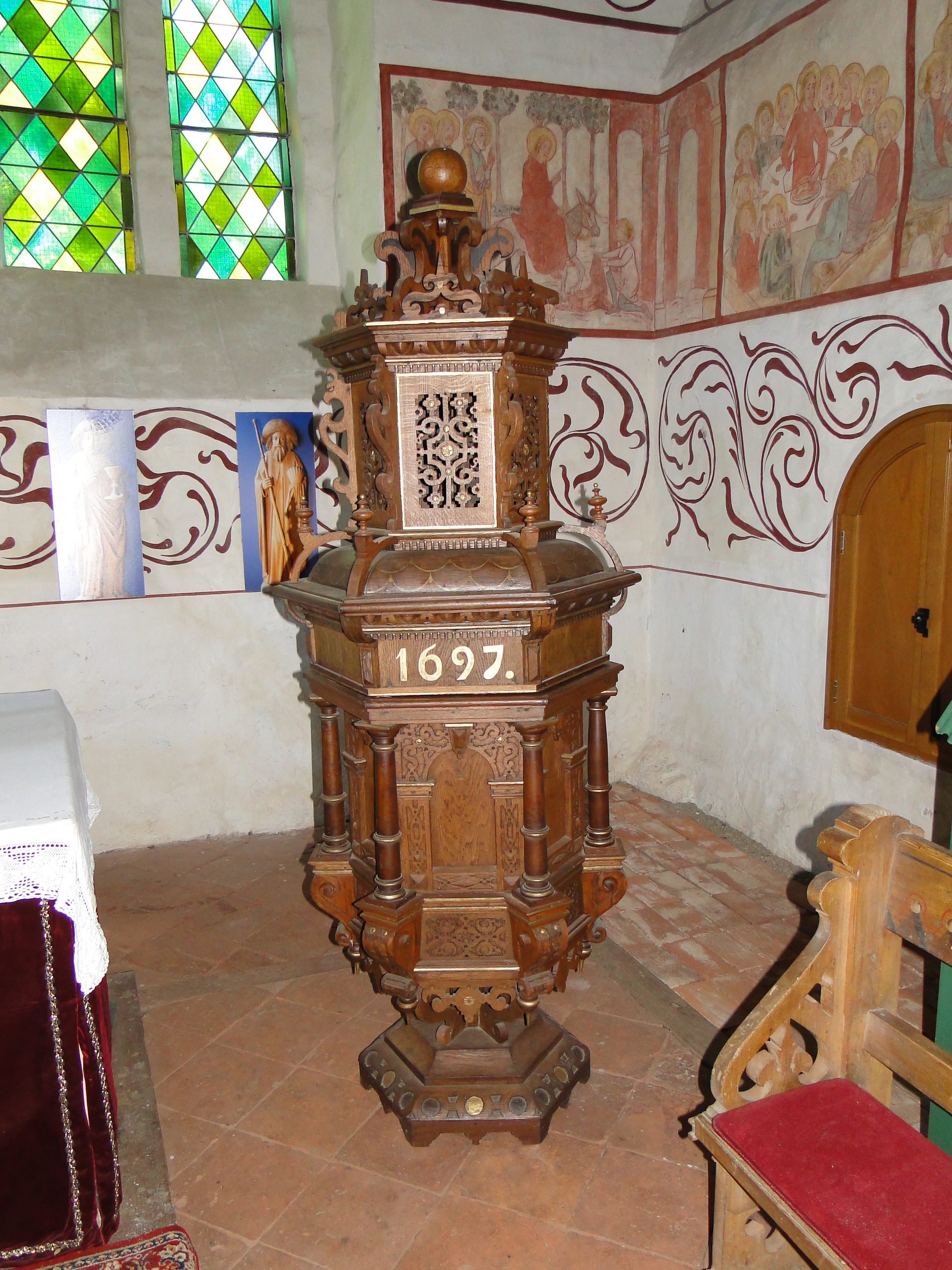 Baptismal font in the church in Below, district Ludwigslust-Parchim, Mecklenburg-Vorpommern, Germany